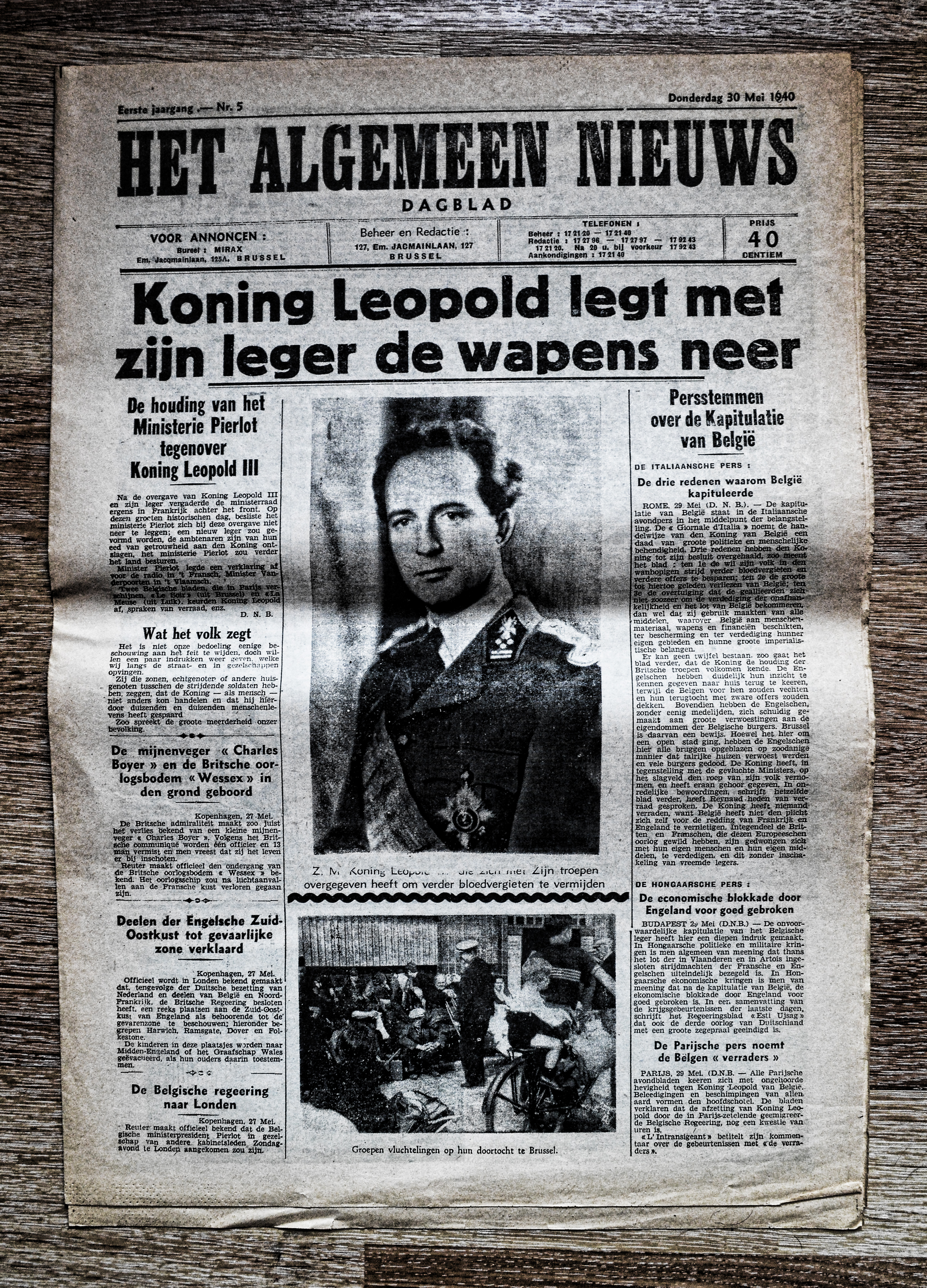 Frontpage of Flemish Newspaper "Het Algemeen Nieuws" of May 30 1940